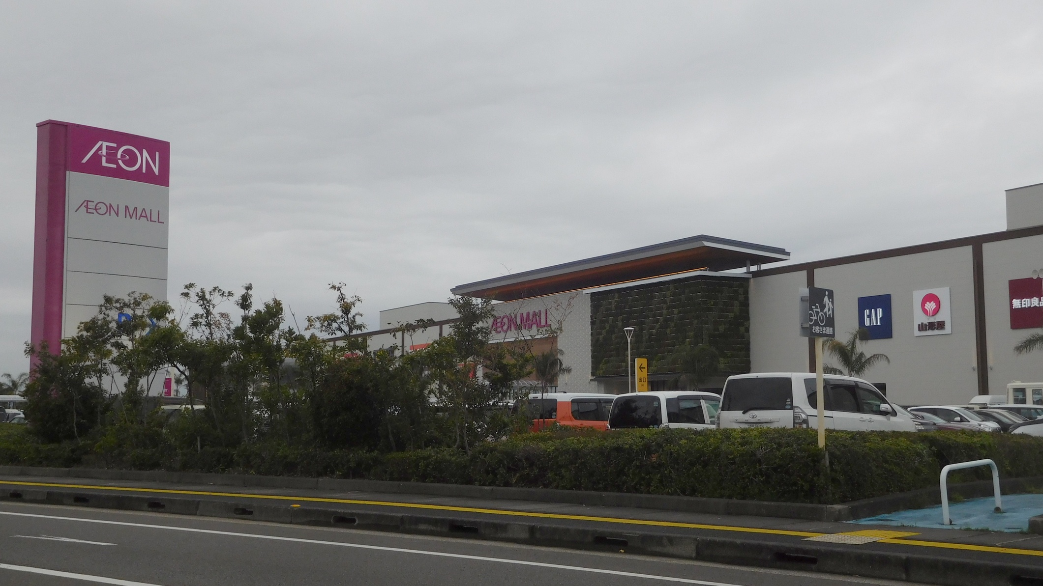 Aeonmall Miyazaki South Mall (Miyazaki City, Japan)